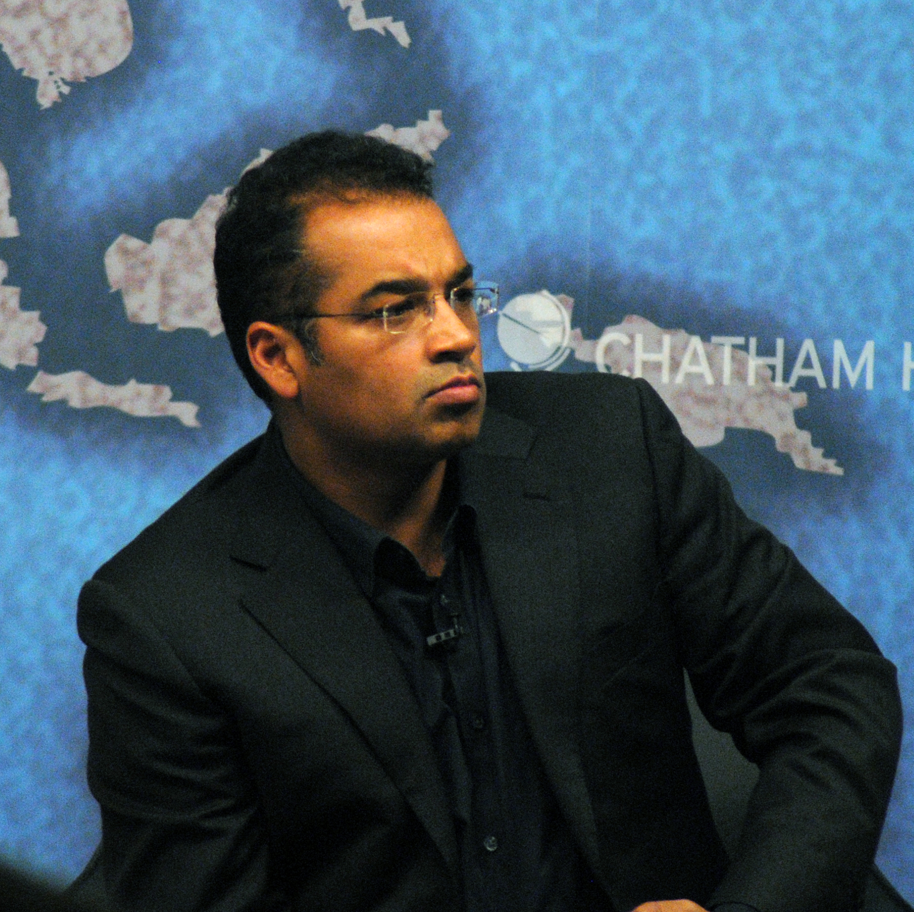 Krishnan Guru-Murthy chairing the debate "Central African Republic: A Country in Hiding" at Chatham House, 7 November 2013 cht.hm/1c2BDpx